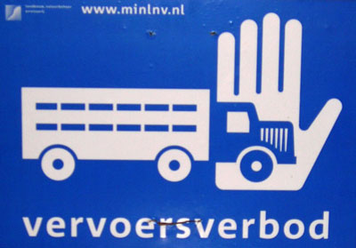 Classical swine fever prohibition to transport pigs (The Netherlands)